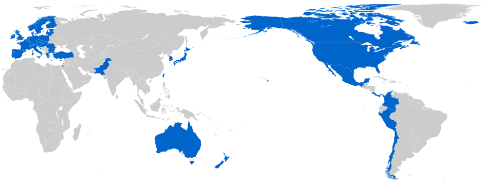 Parties to Trade in Services Agreement (TiSA)